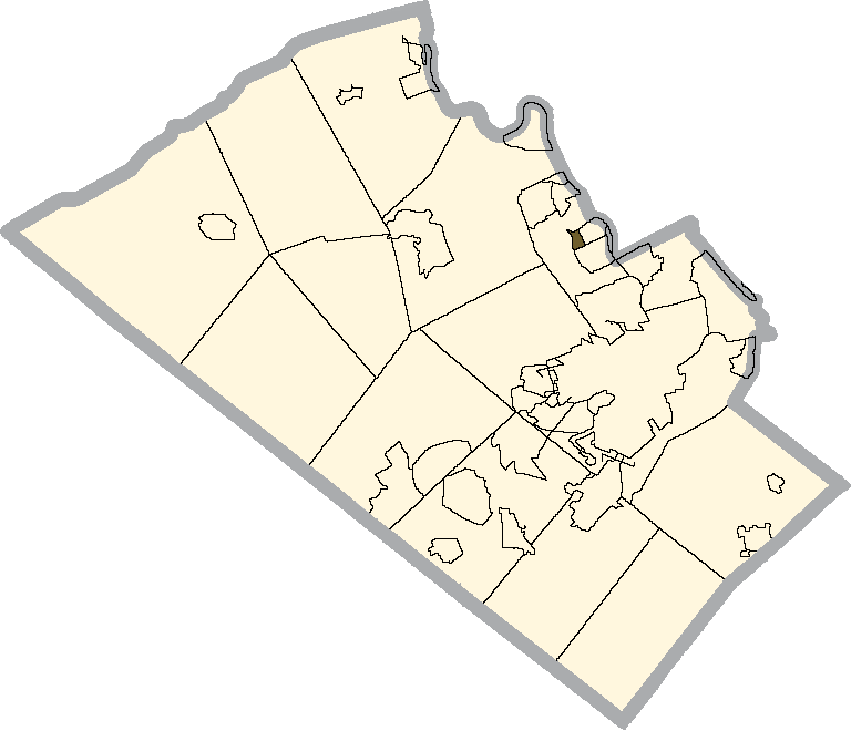 Stiles shaded on map of Leigh county